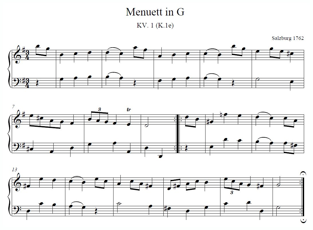 Mozart KV1e